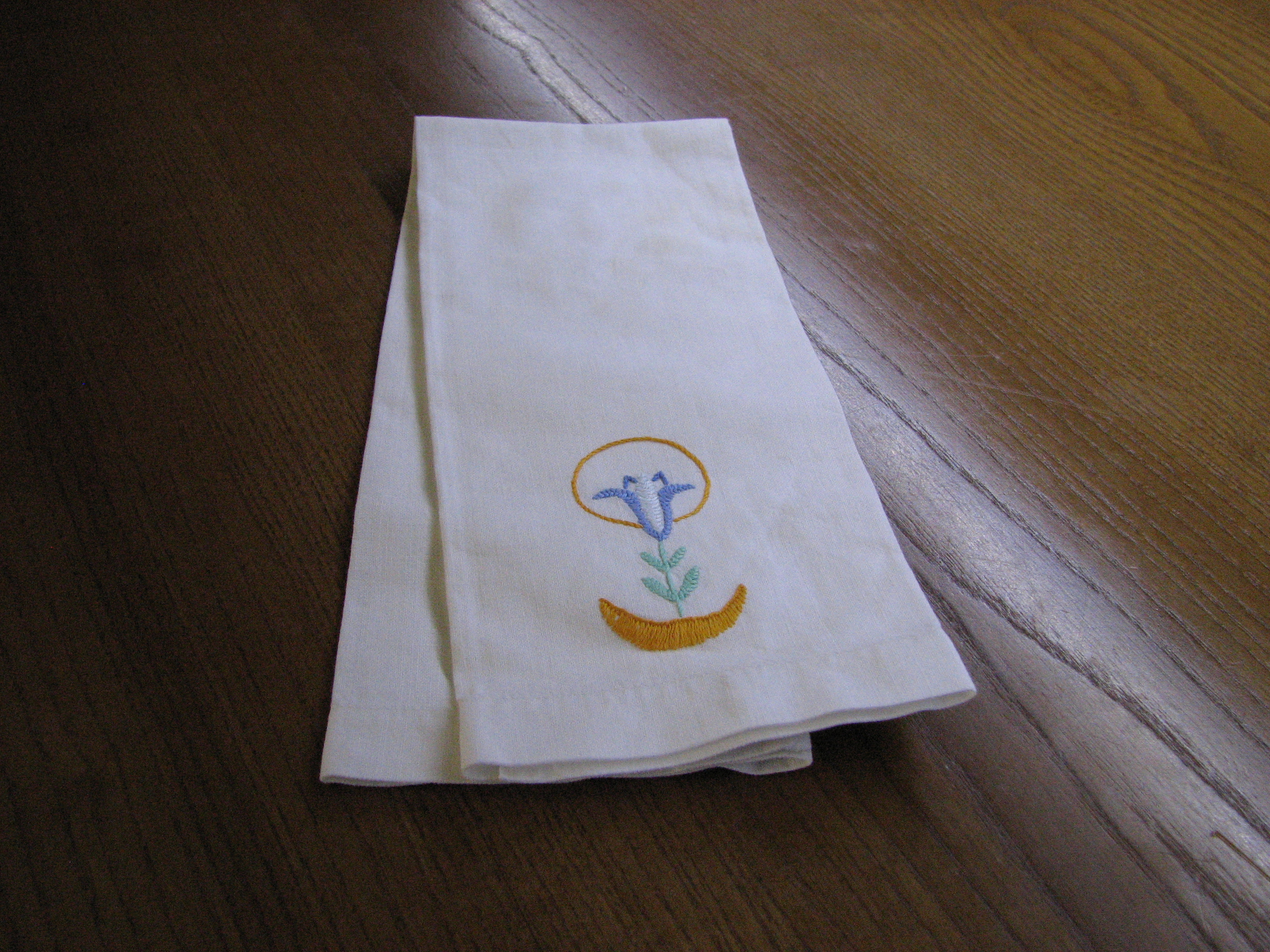 Purificator (Catholic liturgy)